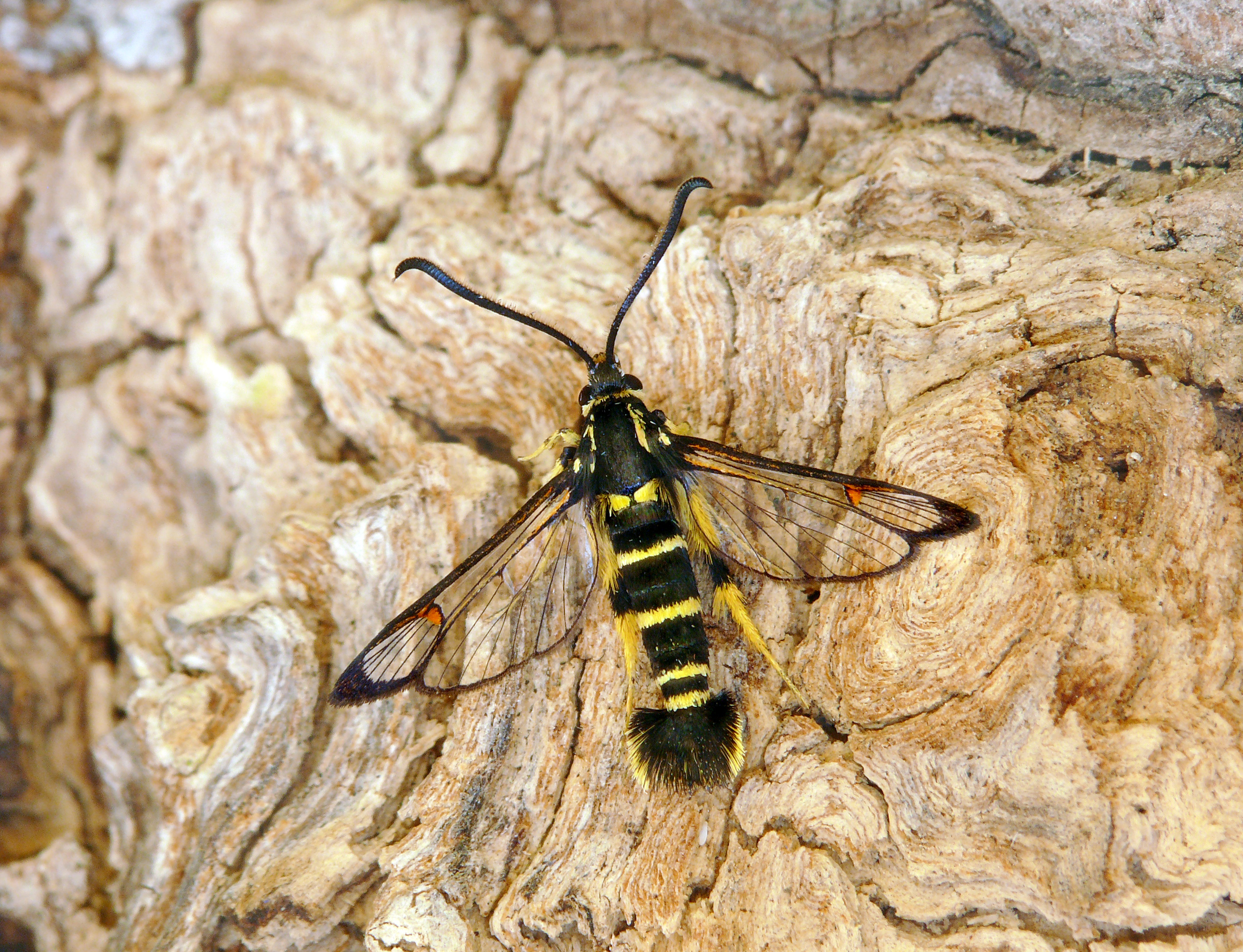 Kinver Edge, Staffs. One of 4 attracted to a pheromone lure.